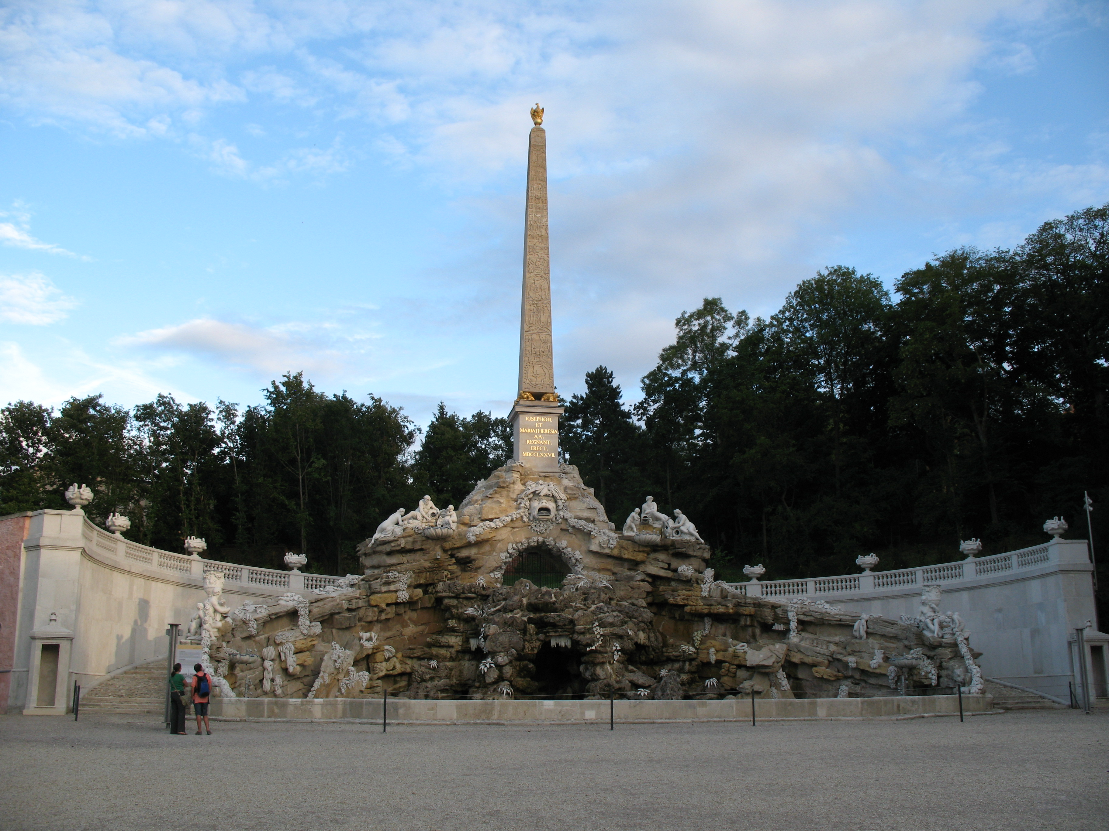 Obelisk in the Schönbrunn Garden, Vienna, Austria